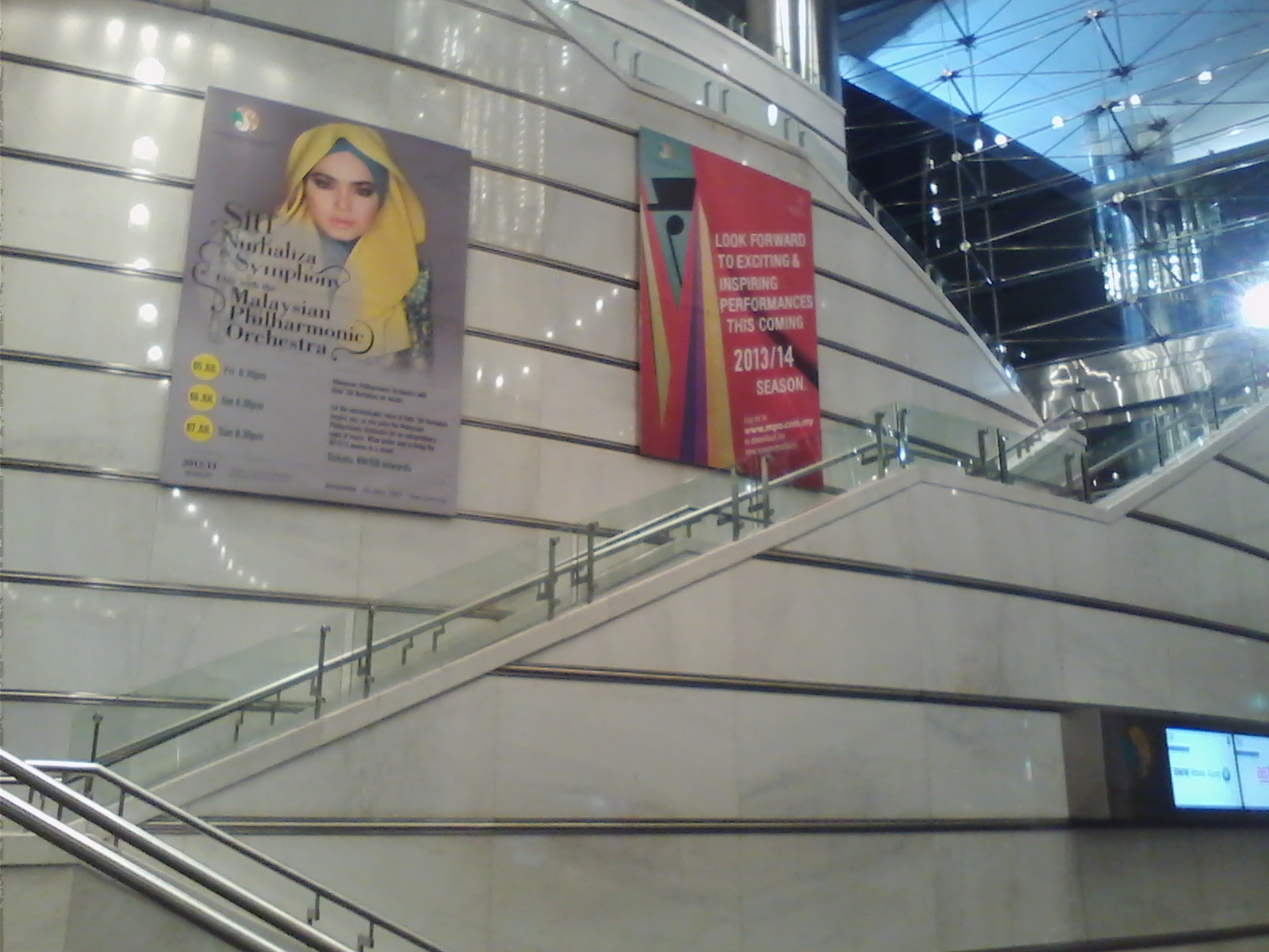 One of the pathways that leads to the entrance of Siti Nurhaliza's concert, "Siti Nurhaliza Live in Symphony" at Dewan Filharmonik Petronas.